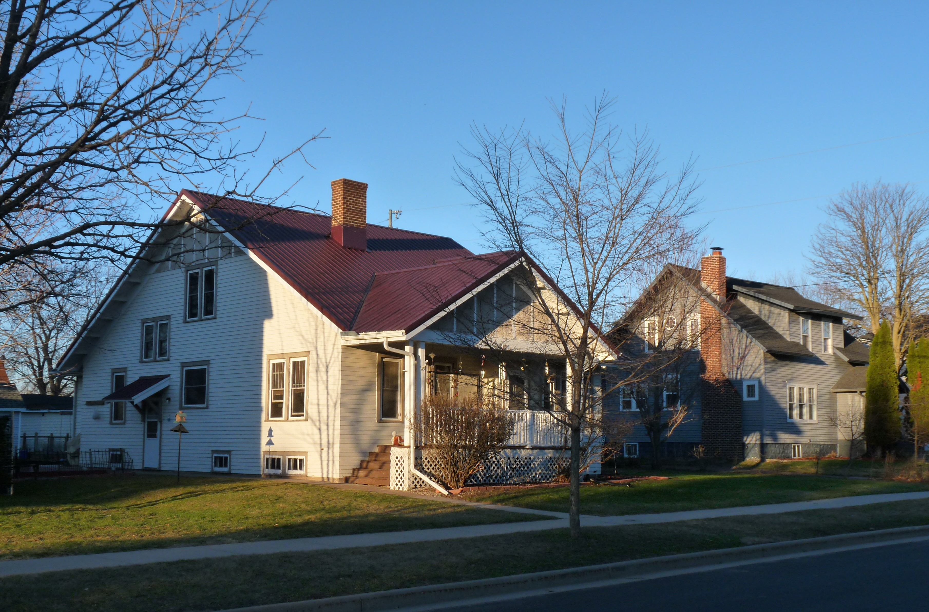 Two bungalows on E. 2nd Street in Marshfield, Wisconsin. The one on left was built between 1912 and 1925 and the one on right was built in 1917.